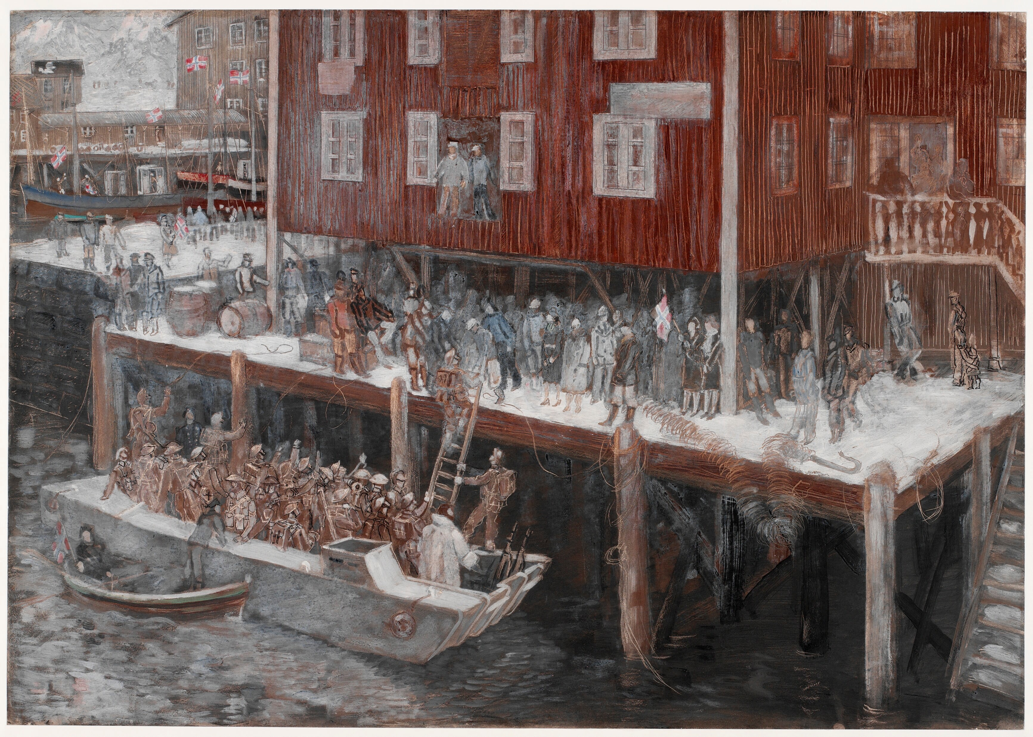 The Arrival at Lofoten - 4th March 1941 image: Troops disembarking via a ladder from a landing craft at the dockside. A rowing boat is drawn up alongside. Dockers, sailors and civilians look on; one is waving a Norwegian flag. Two men look out from the first floor of a large timber faced warehouse building standing on stilts immediately behind the quayside. Barrels, rope and crates litter the side. Other Norwegian flags are flown from fishing boats in an adjacent quay.